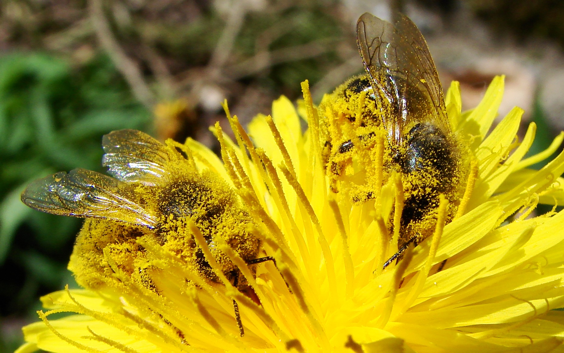 Two Apis mellifera (Bee) browsing a flower of dandelion.